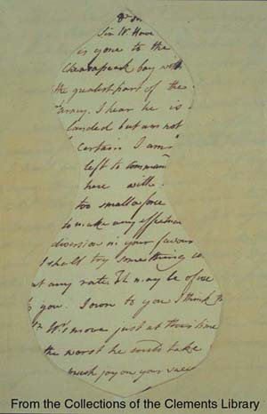 Covert letter from Henry Clinton to John Burgoyne. Using the covert "mask" method to disguise the intended contents: "Sir. W. Howe / is gone to the / Chesapeak bay with / the greatest part of the / army. I hear he is / landed but am not / certain. I am / left to command / here with / too small a force / to make any effectual / diversion in your favour. / I shall try something / at any rate. It may be of use / to you. I own to you I think / Sr W's move just at this time / the worst he could take. / Much joy on your success."